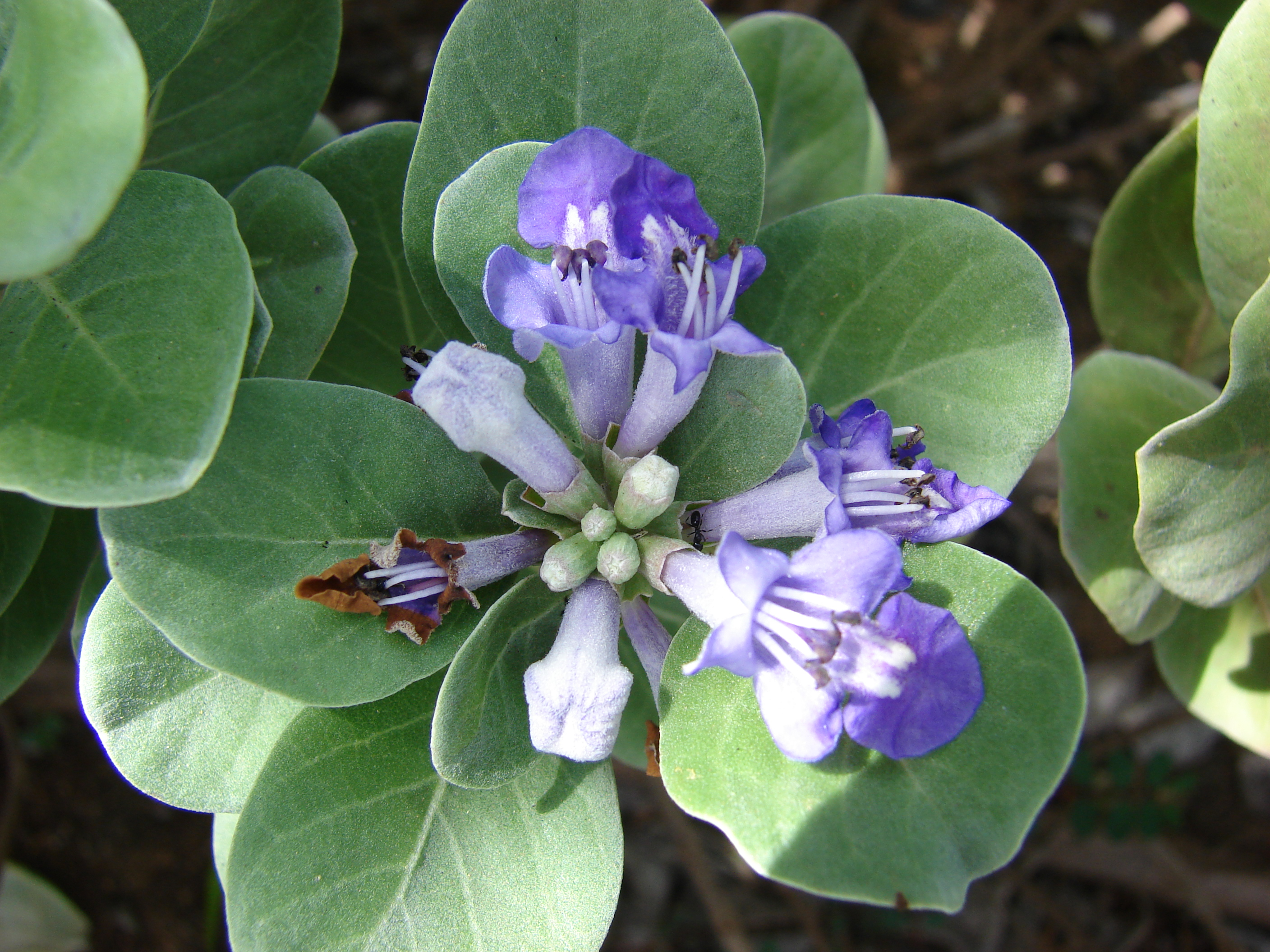 Vitex rotundifolia (flowers and leaves). Location: Maui, Kanaha Beach